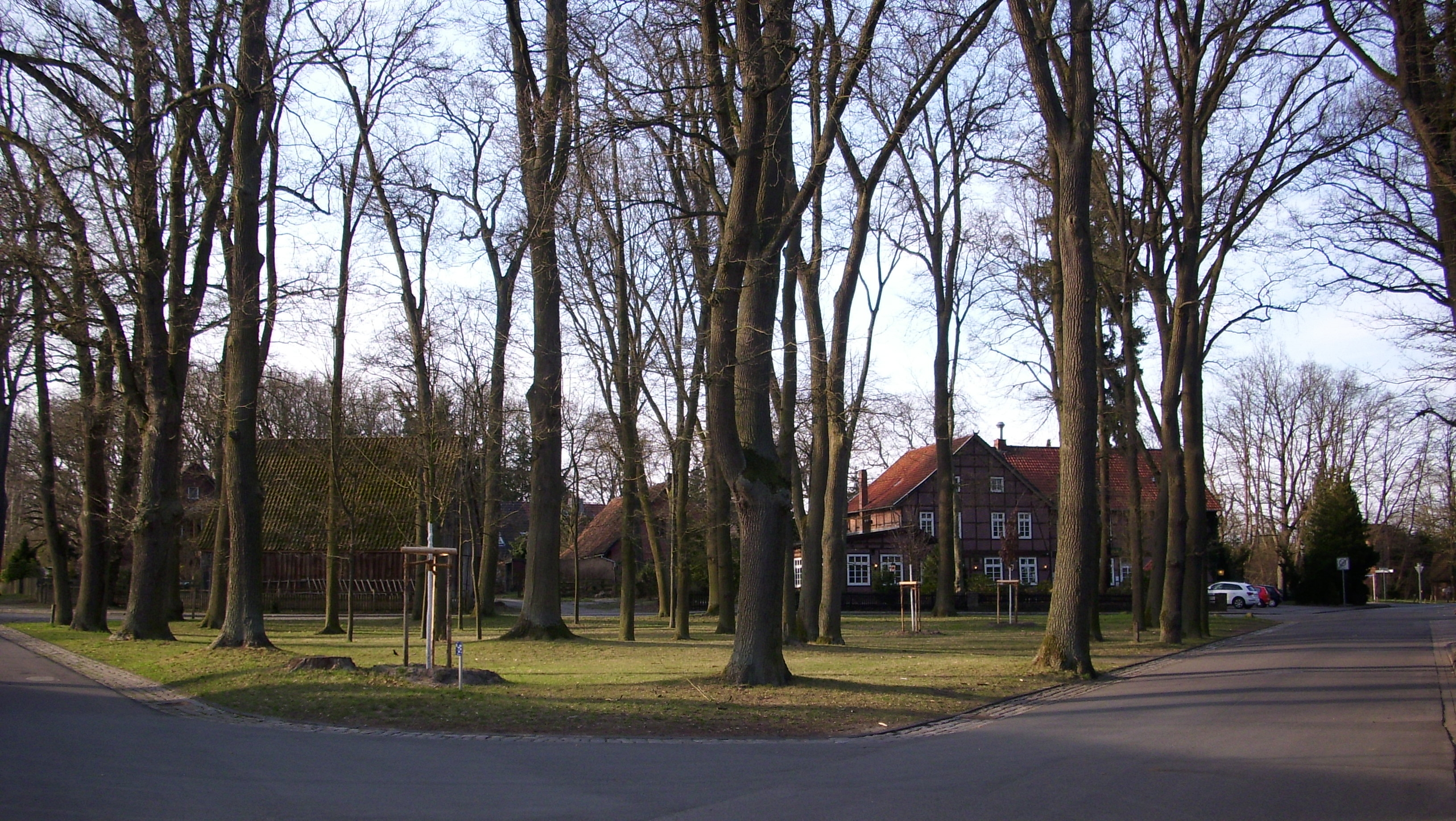 historic village of Boye, town district of Celle, Lower Saxony, Germany